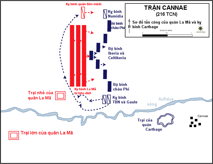 Vietnamese version of Image:Battle of Cannae, 215 BC - Initial Roman attack.gif